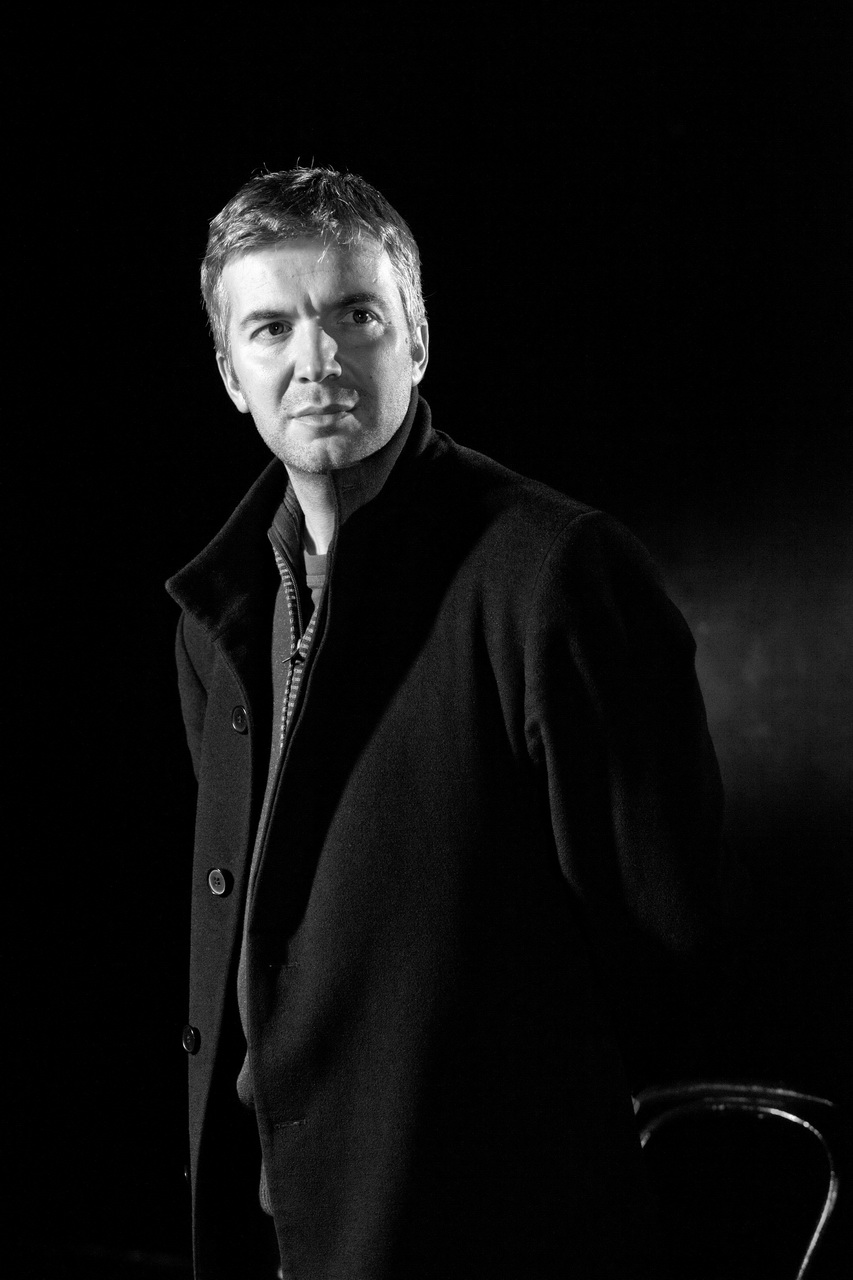 Jugoslav Krajnov, an actor of the Serbian National Theatre Srpski (latinica): Jugoslav Krajnov, glumac Srpskog narodnog pozorišta Српски (ћирилица): Југослав Крајнов, глумац Српског народног позоришта